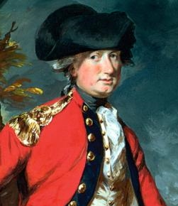 British general Charles Cornwallis